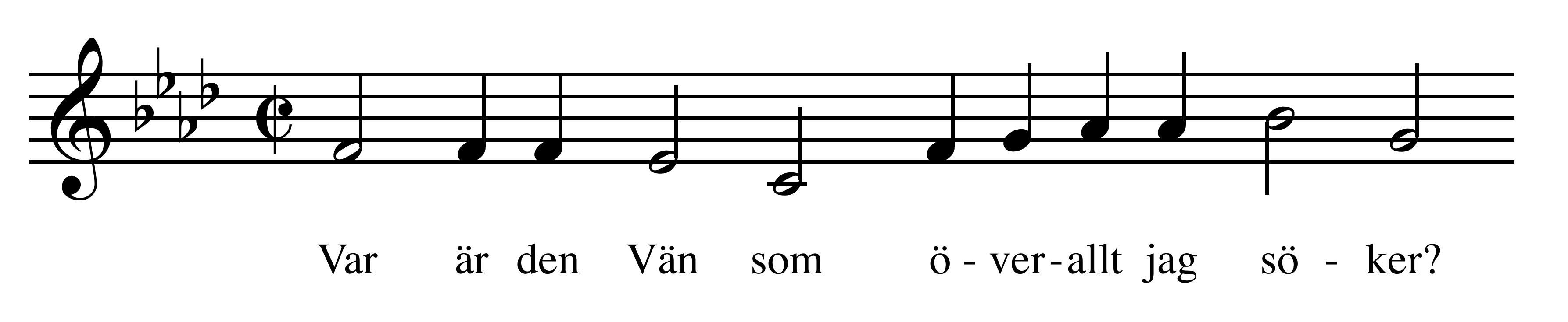 Var_är_den_vän_(Crüger_2)